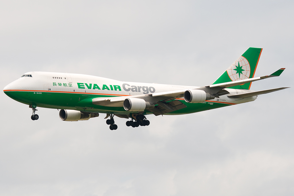 Eva Air Cargo Boeing 747-400BCF.